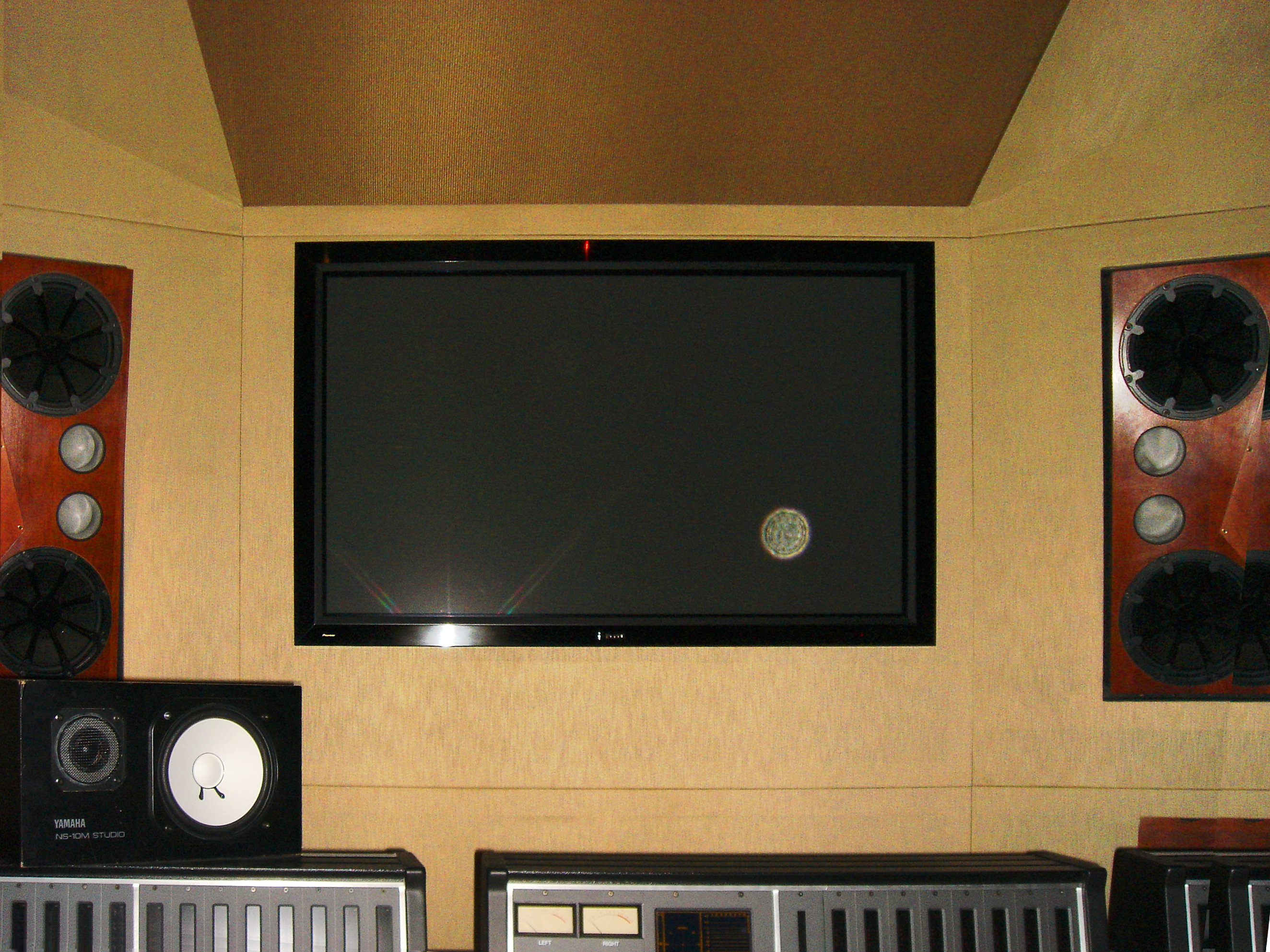 Flickr Tags: patchwerk atlanta recording studio. from Flickr album "Patchwerk Studios in Atlanta, Ga" by Jon Gos from Philadelphia, Unites States